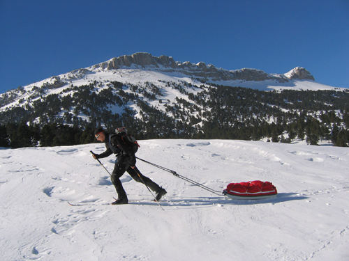 A French man draws his pulka in the massif of Vercors.